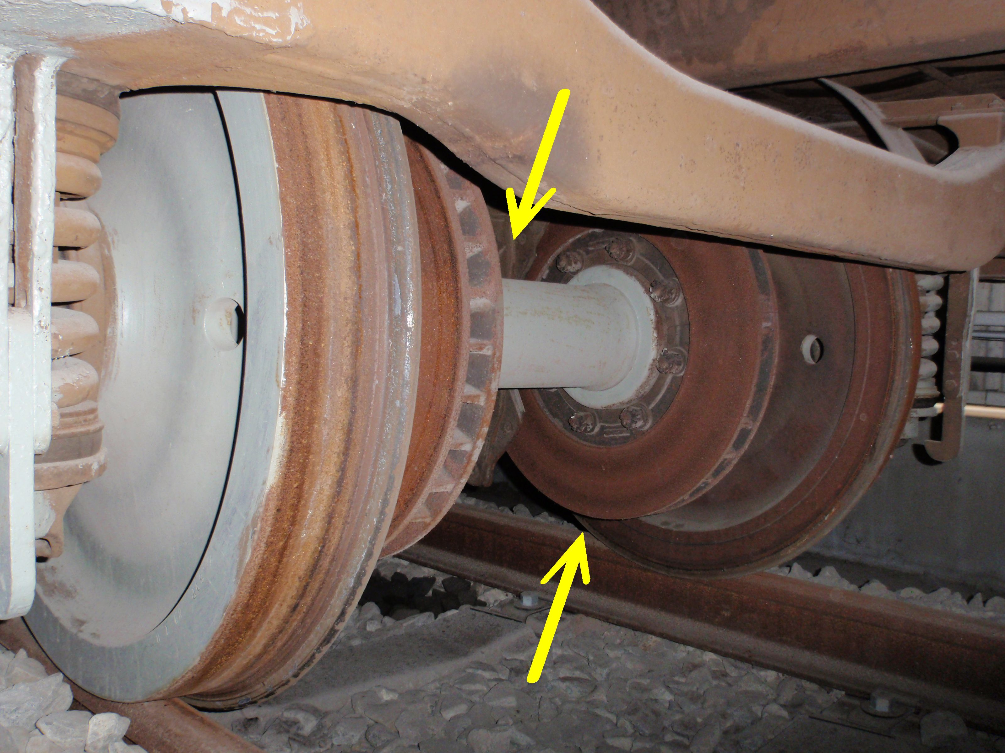 Disk brake of Odakyu Electric Railway type 3000 series.